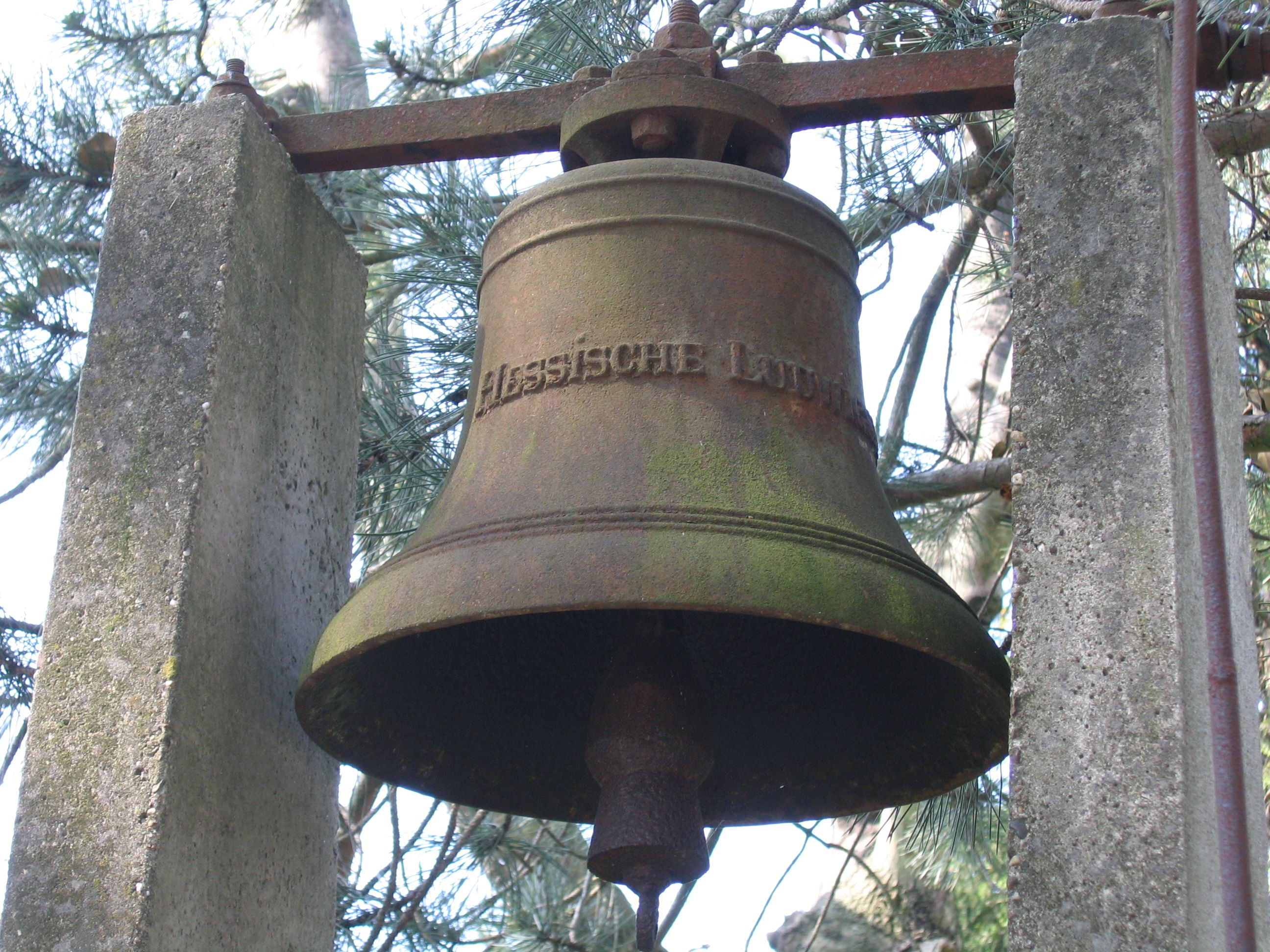 Bell for a railway-station of Hessische Ludwigsbahn